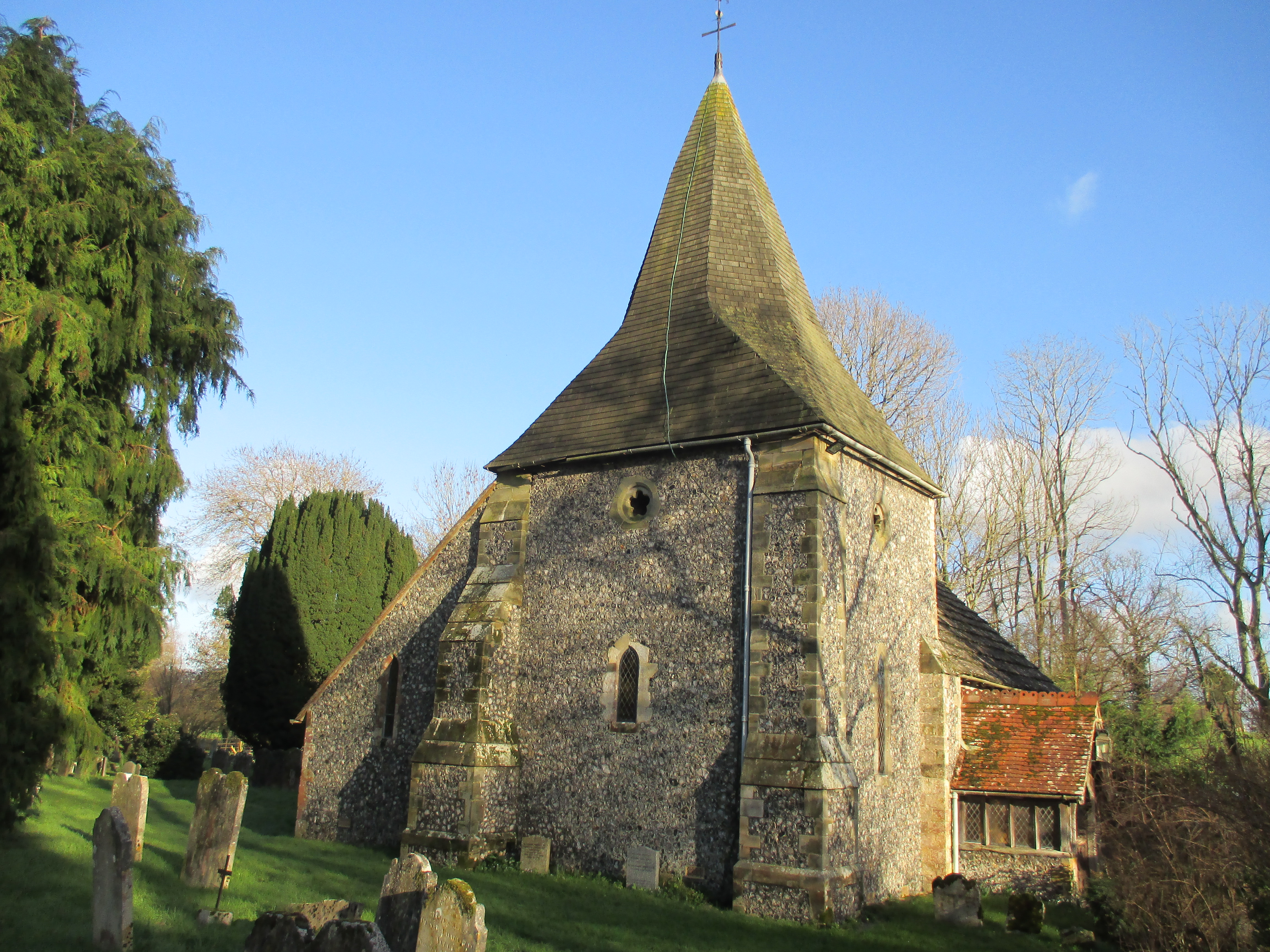 St James' church, Ashurst, West Sussex, photographed from the south-west.